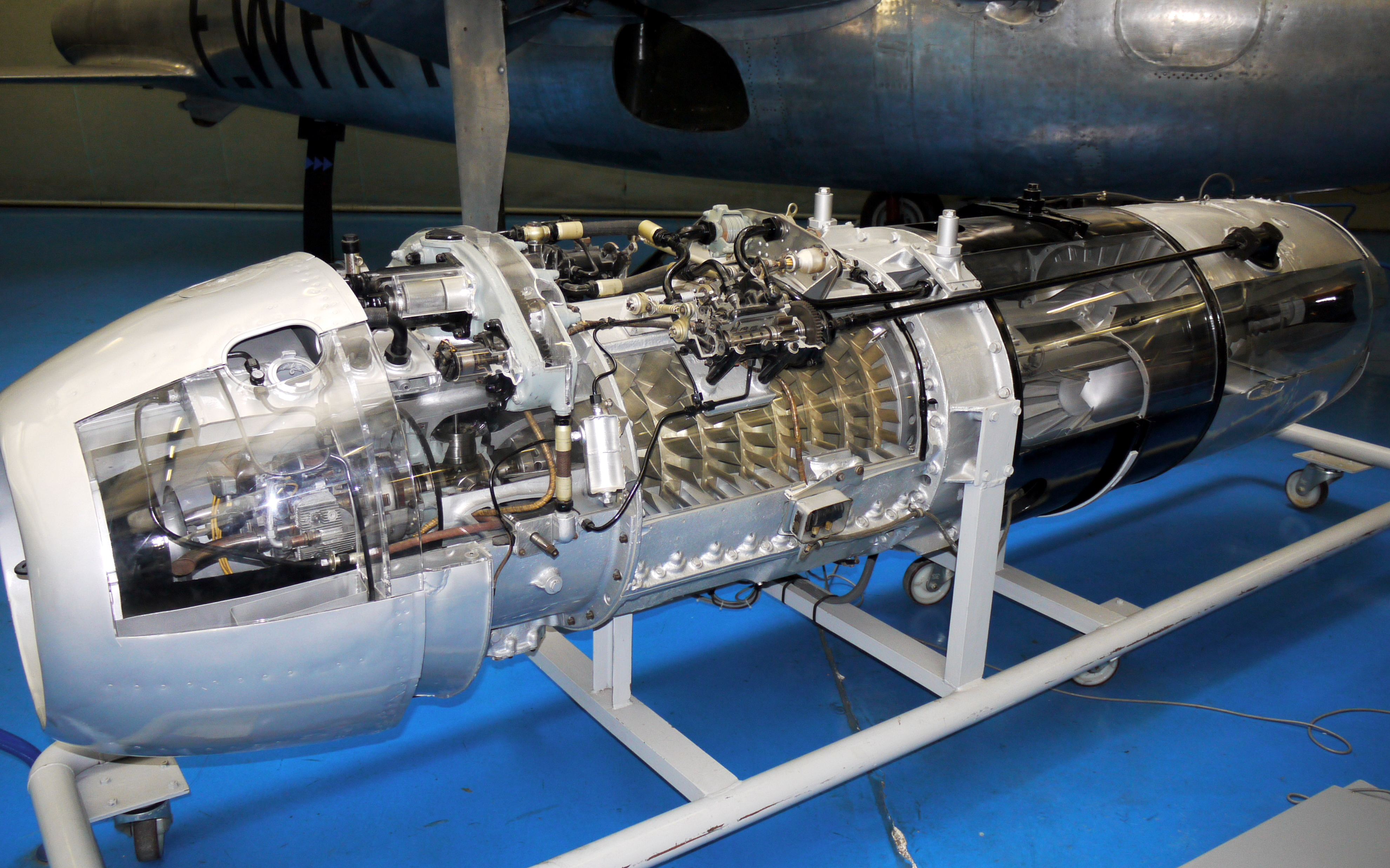 German turbojet engine Junkers Jumo 004 that powered after war the Sud-Ouest SO 6000 Triton (1940), Museum of Air and Space Paris, Le Bourget (France)